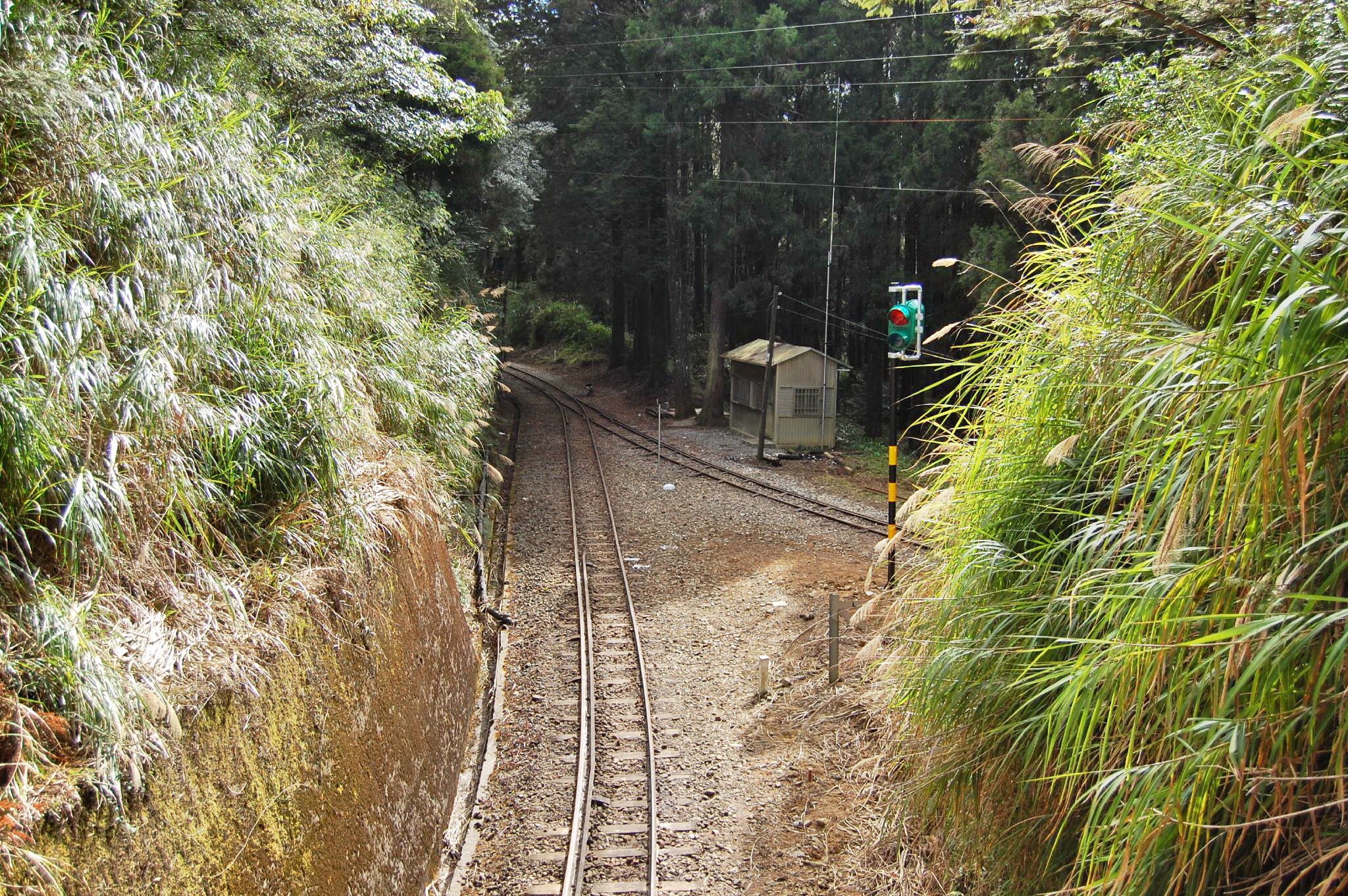 View of the Junction of Mianyuei Railway Line and Jhushan Railway Line at Tashan Trail.眠月線興祝山線鐵路交會景觀塔山歩道より見た眠月線-祝山線分岐点（十字分道?)